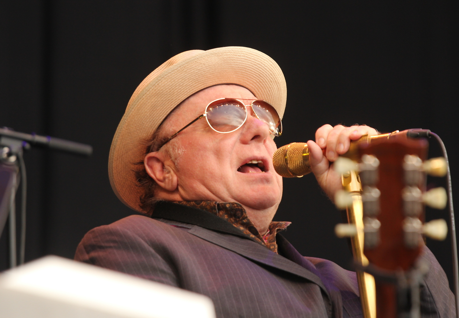 Van Morrison at Notodden Blues Festival 2013